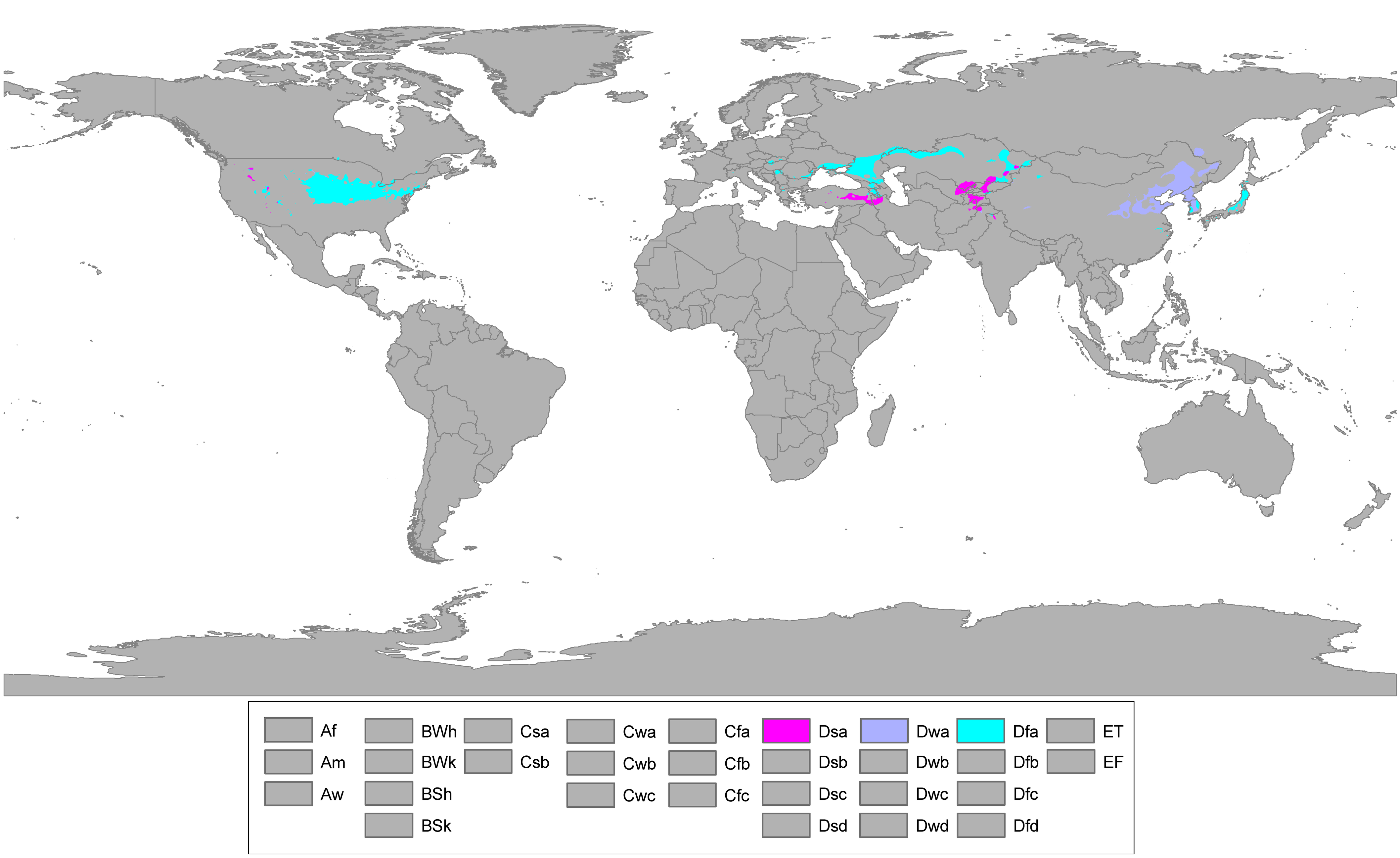 Updated world map of the Köppen-Geiger climate classification. Humid continental climates: Hot (or very warm) summer subtype (Dfa, Dwa, Dsa)